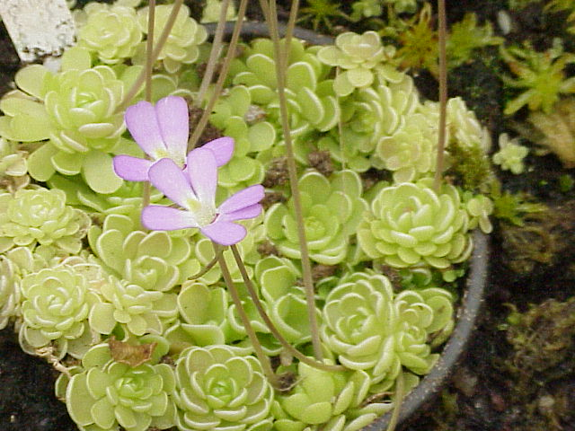 Species: Pinguicula esseriana Family: Lentibulariaceae Image No. 2